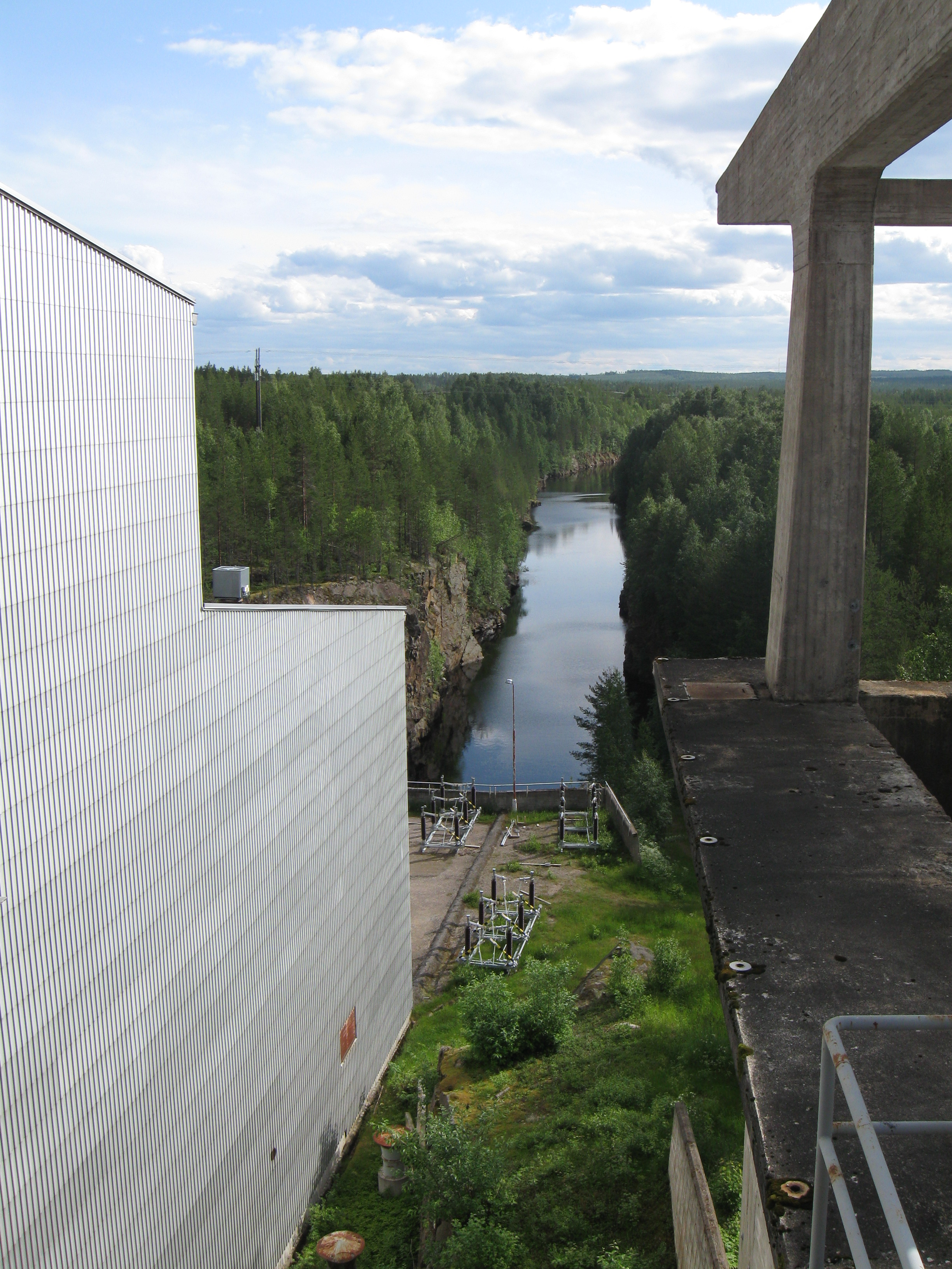 Aittokoski hydroelectric power plant at Emäjoki in Suomussalmi, Finland.